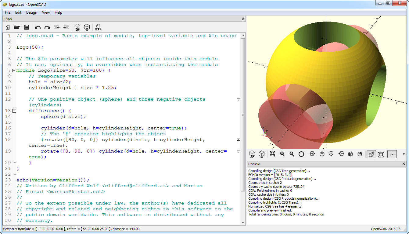 OpenSCAD 2015.03 Screenshot